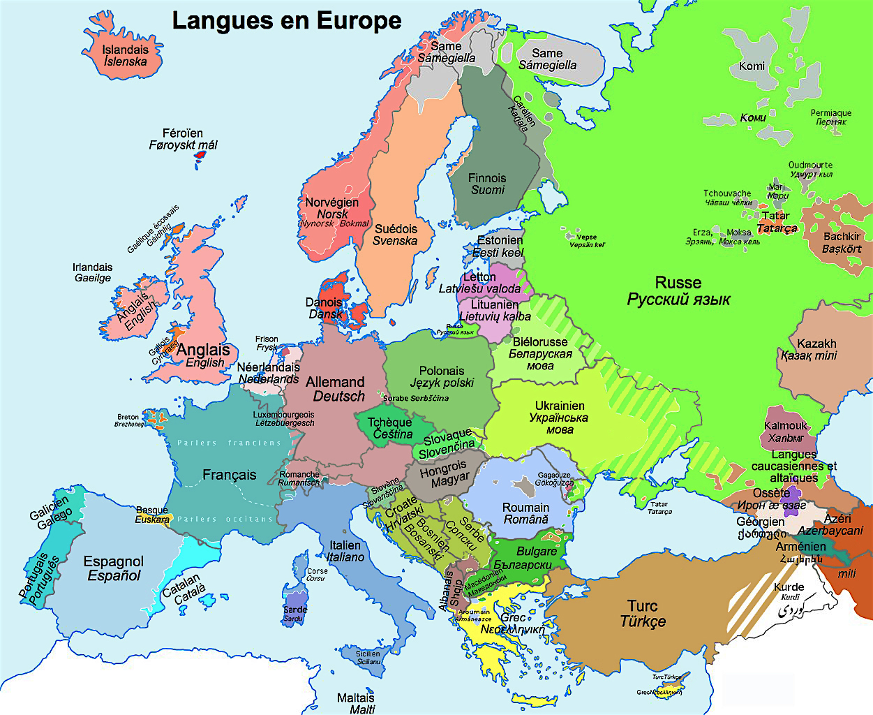 Map in French of the common languages ​​in Europe (not to be confused with the official languages: for example, only the French is in France, the Bulgarian in Bulgaria), according to [2] but more detailed.